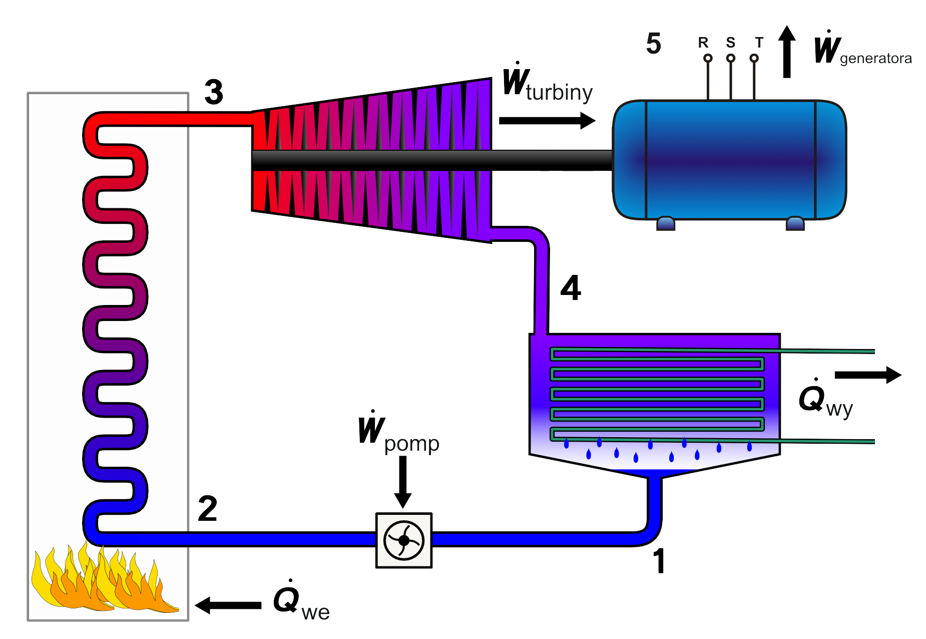 Diagram showing the basic layout of a Rankine cycle transform heat, in turbogenerators, to electric energy; Fluid is pumped to high pressure going from state 1 to 2. Heat is added in the boiler by the burning of fuel (although heat can be added by any method) boiling the fluid to state 3. The vapour expands through the turbine dropping significantly in pressure and temperature to state 4. Finally the vapour is condensed back to a liquid and fed back in the pump. Mechanical energy, rotation of turbine rotor, is transformed to electrical energy into Electrical Generator. Rysunek przedstawia schemat przemiany energii cieplnej w energię elektryczną w turbogeneratorze. Ciecz pompowana przez pompę z 1 do 2 jest podgrzewana do przejścia fazowego w przegrzaną parę 3. Para rozprężając się i stygnąc napędza turbinę oddając zmagazynowana energię. Następnie przepływa do chłodnicy 4, gdzie skrapla się i cykl się zamyka 1. Energia mechaniczna - obrót wirnika turbiny - zamieniany jest na energię elektryczną w generatorze. Zwykle zastosowany jest generator synchroniczny.